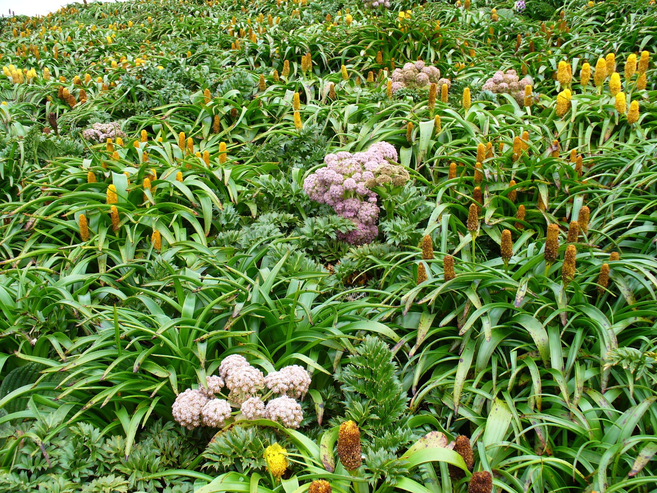 A densely-growing megaherb community on Campbell Island, one of the sub-antarctic islands of New Zealand. The yellow flowers are Bulbinella rossi, and the pink flowers are those of Anisotome latifolia.